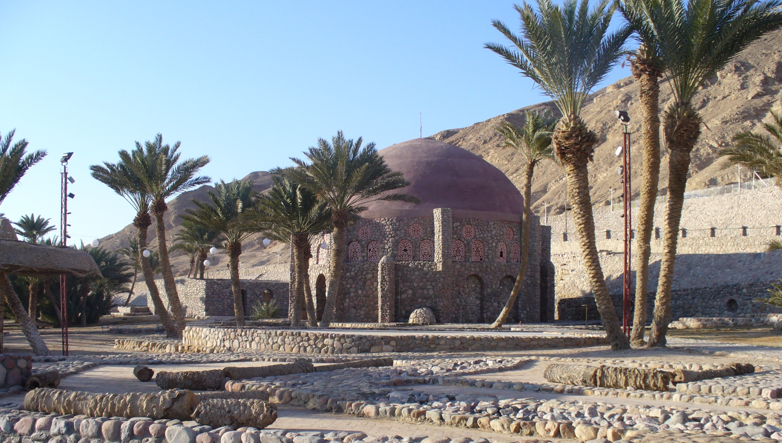 Hammam Musa (Moses' Bath), hot spring, South Sinai, Egypt